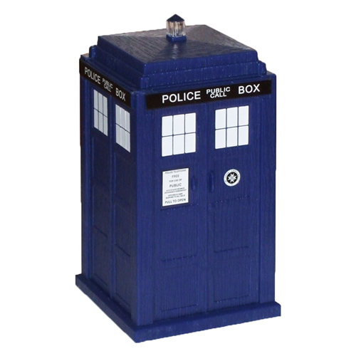 Tardis